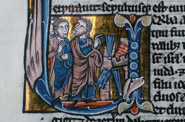 Amos points toward a crumbling building, miniature from the Bible of the Monastery of Santa Maria de Alcobaça, c. 1220s (National Library of Portugal ALC.455, fl.295v).